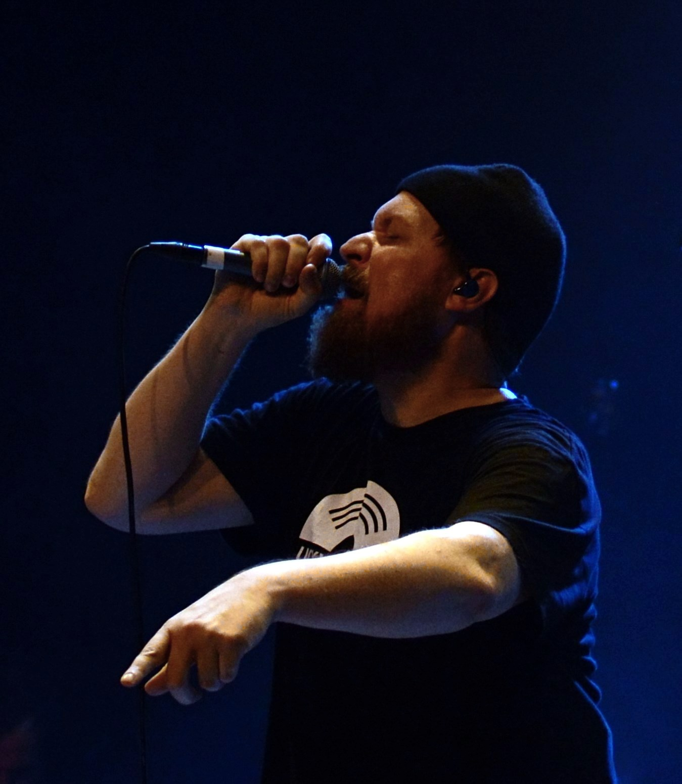 John Grant performing live at Byscenen, Trondheim, Norway. Pale Green Ghost tour.